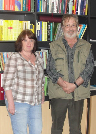 Picture of Maurice and Charlyne de Gosson